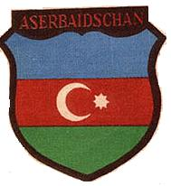 Emblem of German "Aserbaidschanische Legion" or "Kaukasische-Mohammedanische Legion", formed of anti-Soviet volunteers from the Caucasus-Azerbaijan area.